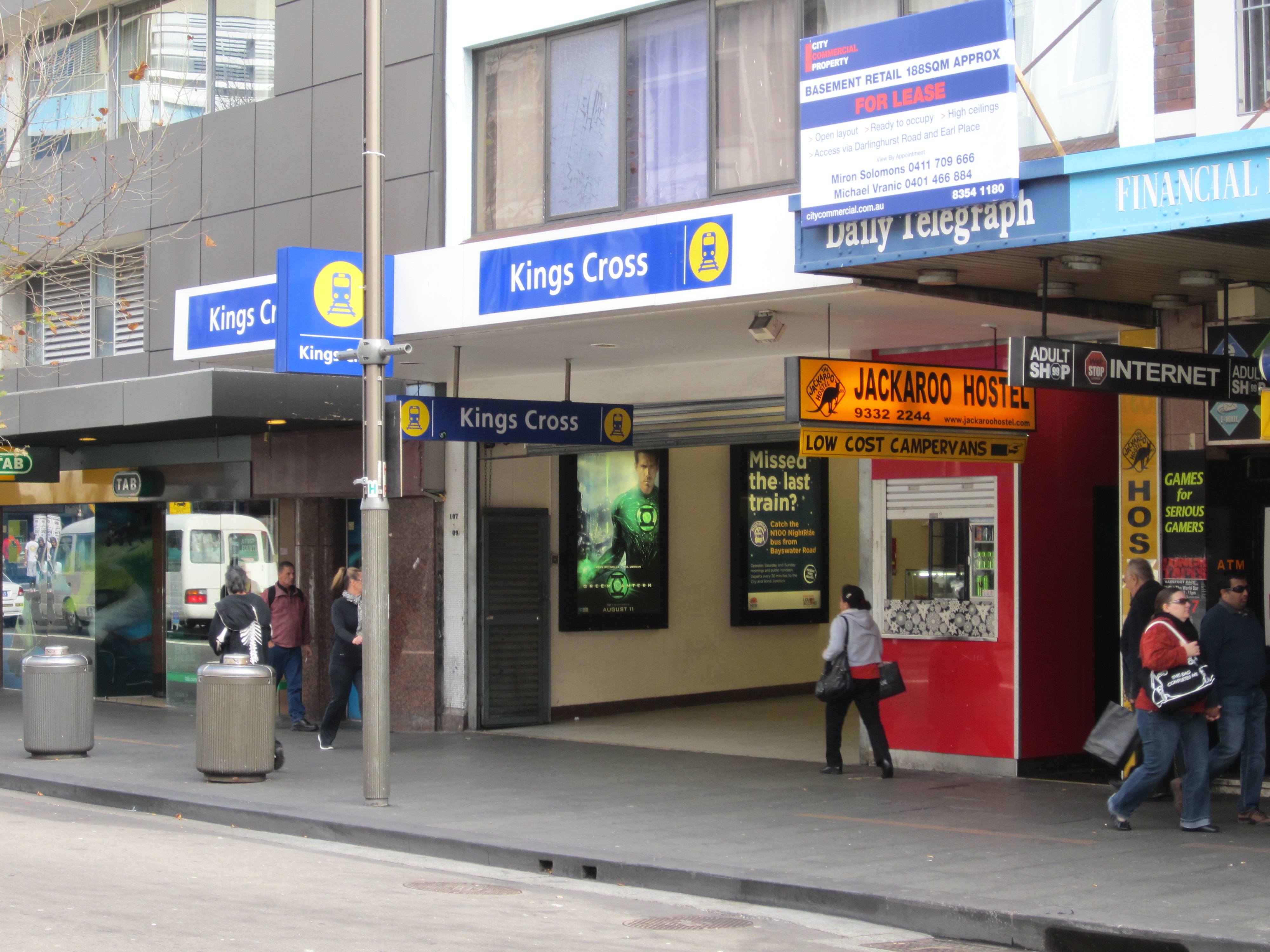 An entrance to Kings Cross railway station facing onto Darlinghurst Road